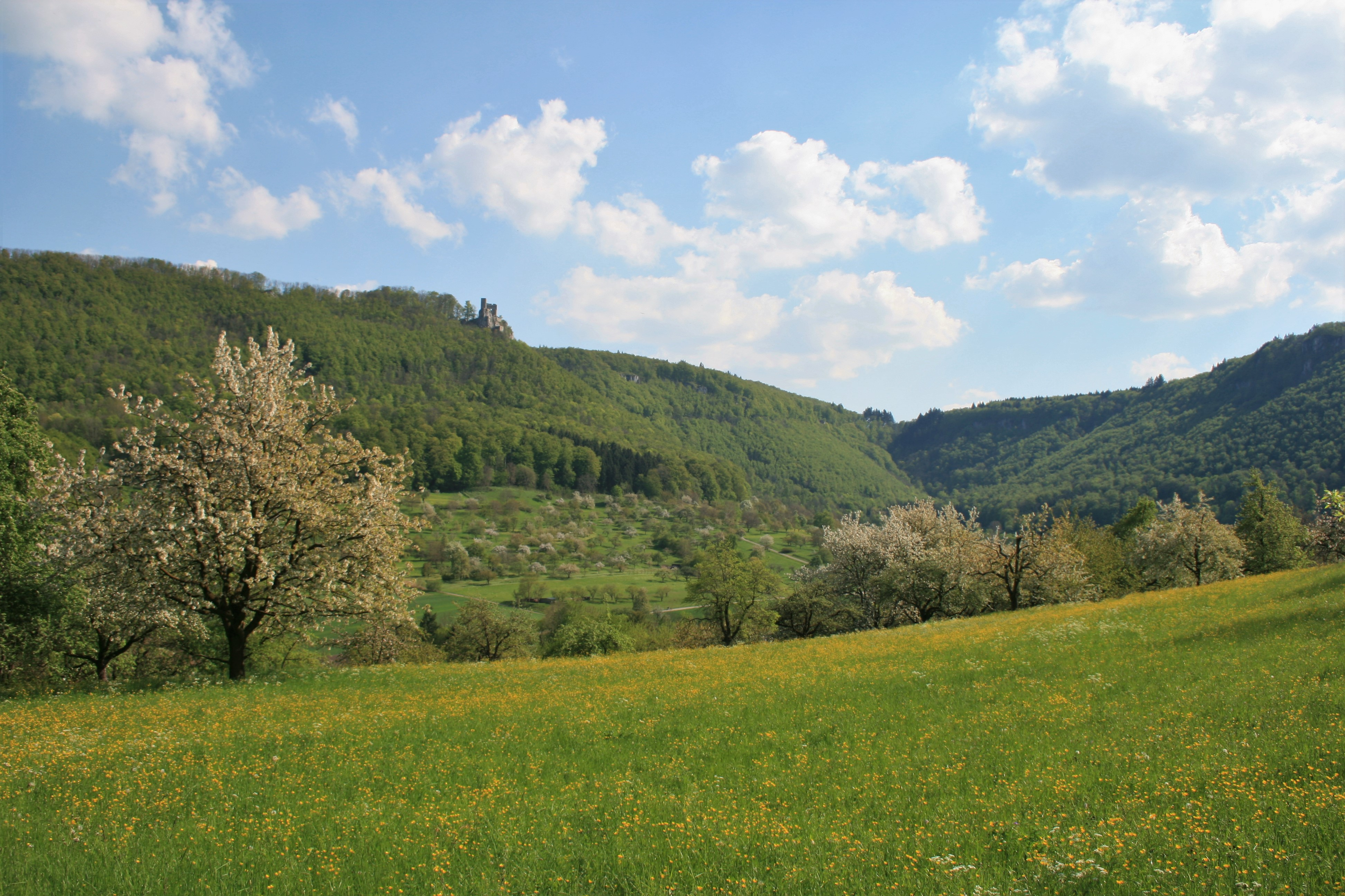 View from Neidlingen Valley (also upper Lindachtal) to the ruins of Reußenstein over orchards